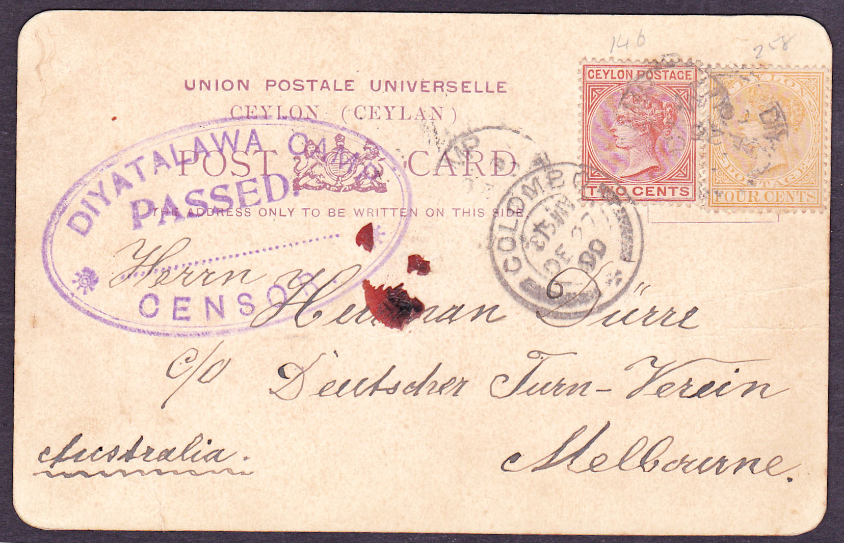 A 1900 postcard from the Boer War Prisoner-of-war Camp at Diyatalawa, Ceylon. Two definitive stamps of Ceylon issued in 1899: Issues of 1883-1899. Series: Queen Victoria. Catalog codes: Mi:LK 116, Sn:LK 87. Perforation: 14. Printing: Typography. Colors: Orange brown. Face value: 2 Ceylonese cent. Watermark: Crown and CA. Issues of 1883-1899. Series: Queen Victoria. Catalog codes: Mi:LK 119, Sn:LK 91. Perforation: 14. Printing: Typography. Colors: Yellow. Face value: 4 Ceylonese cent. Watermark: Crown and CA.